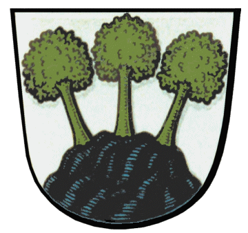 Coat of arms of Steinsberg (Rheinland-Pfalz)